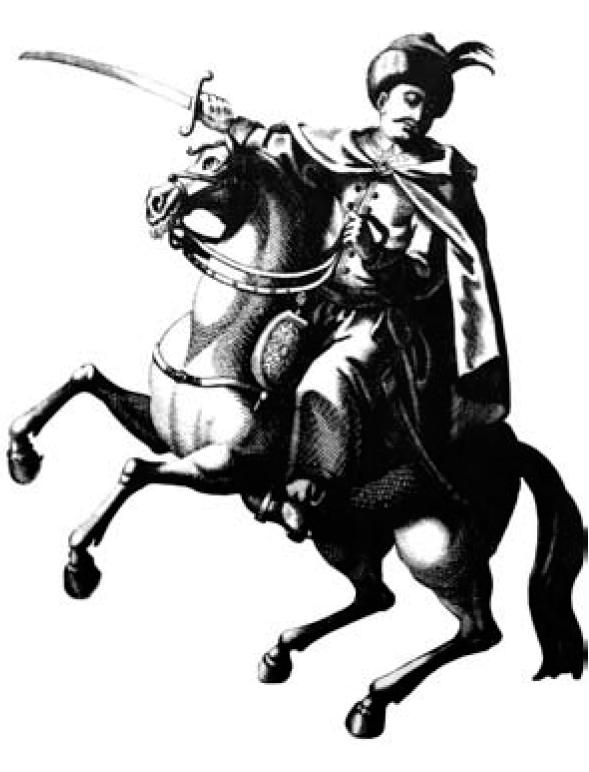 Jozef Zaremba, military commander of Wielkopolska during Bar Confederation